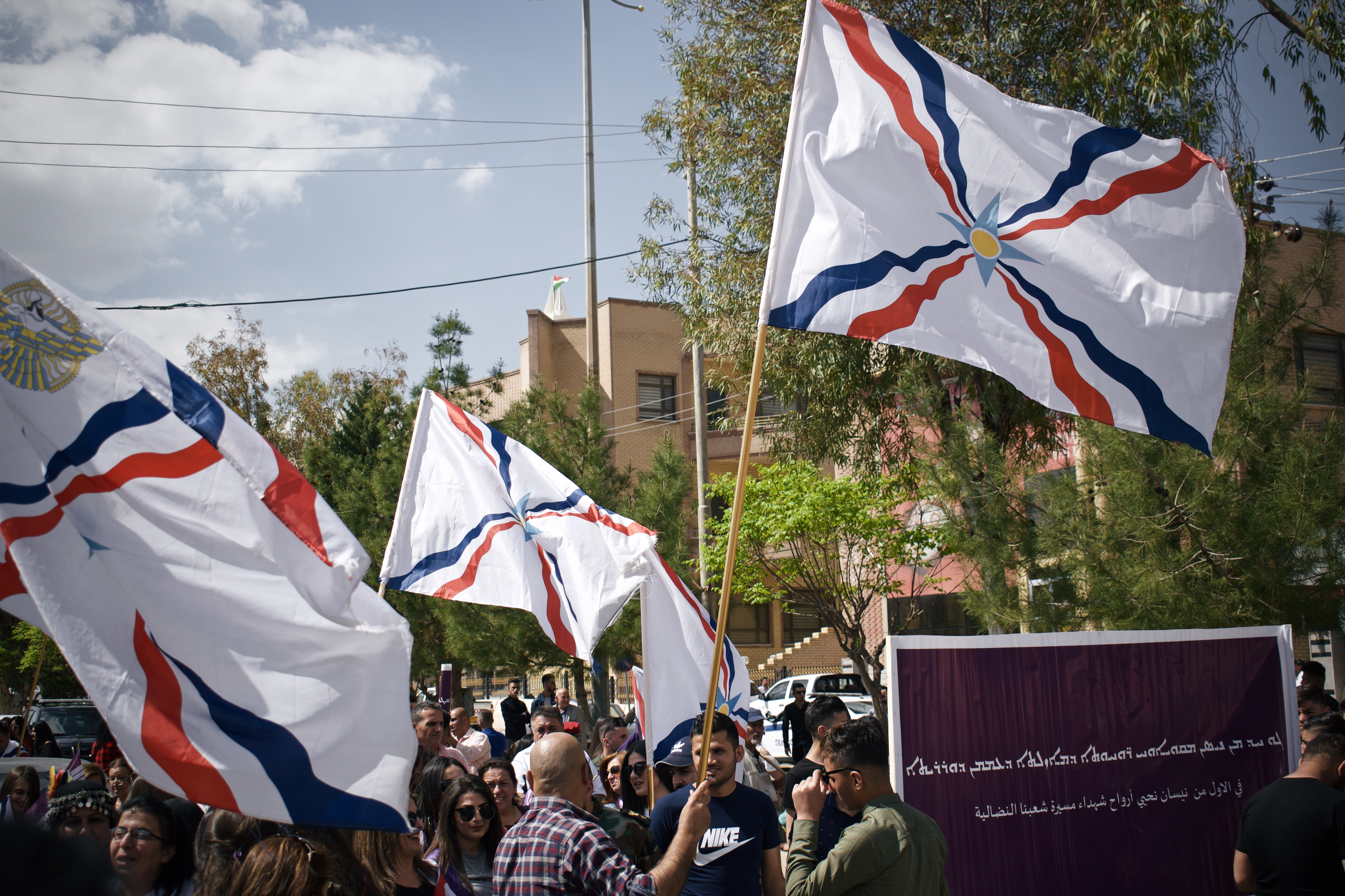 Aketo Festival (Assyrian New Year) in April 2018 in Nohaadra (Duhok)